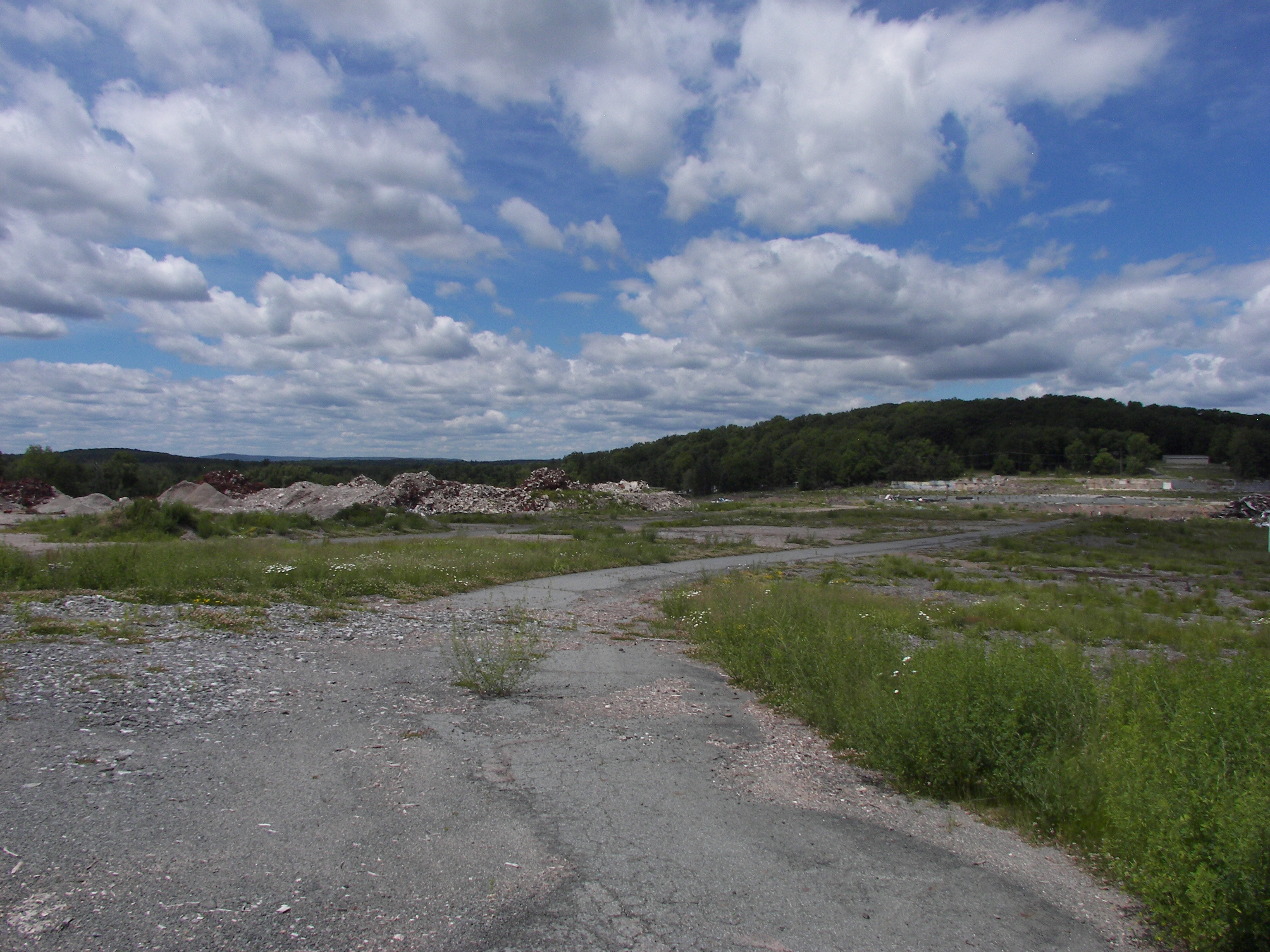 Picture of the remains of the old Concord Resort Hotel in Kiamesha Lake, New York, United States. Pictures taken by myself in June 2010.